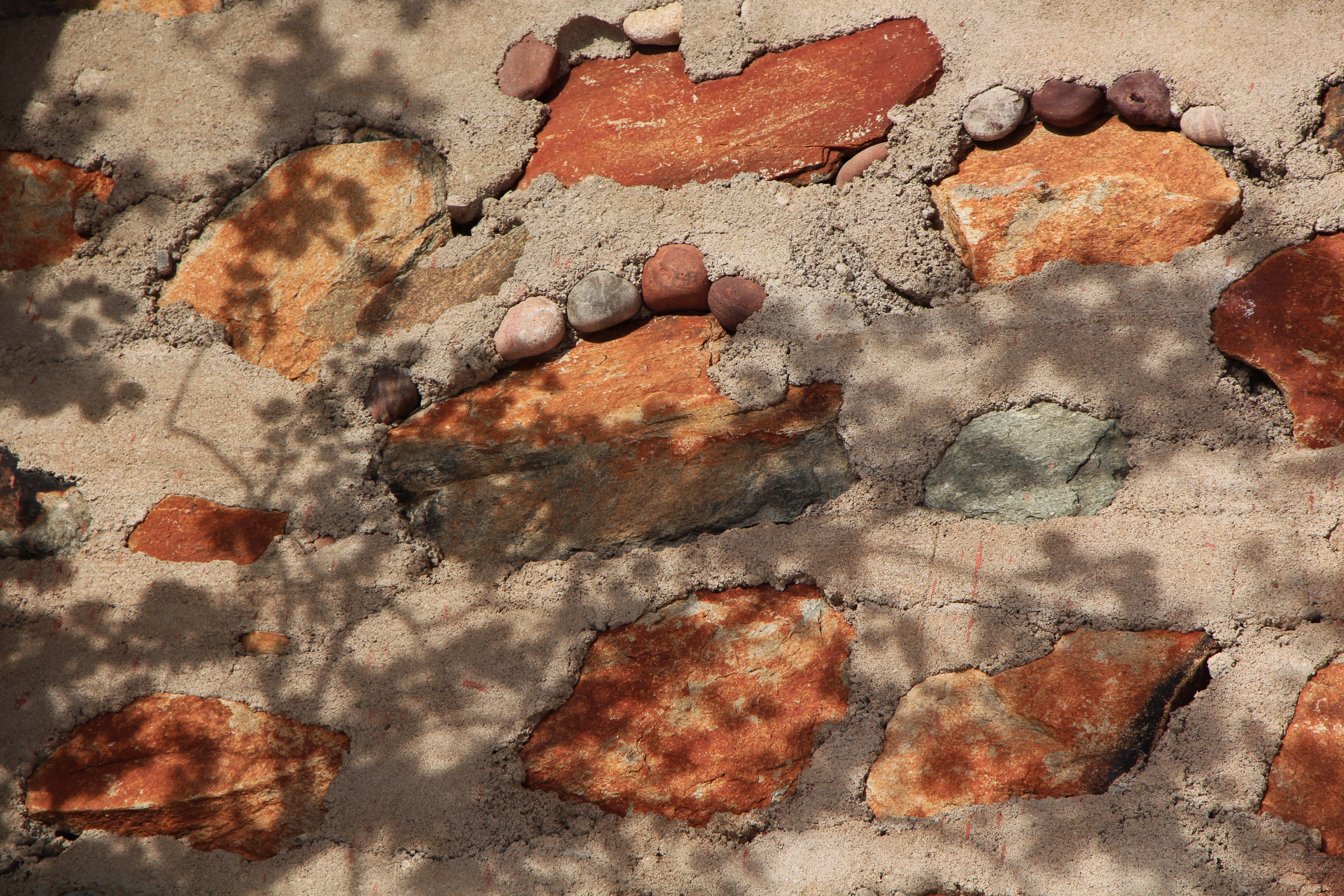 Taliesin West, Concrete Wall Detail, AZ